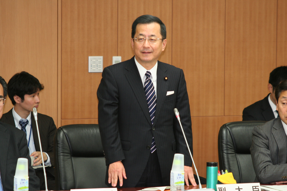 Kiyoshige Maekawa, Senior Vice-Minister of Cabinet Office, attended a meeting in Tōkyō Metropolis on November 1, 2012. (For terms of use, see 金融庁ウェブサイト利用ルール： 金融庁.)